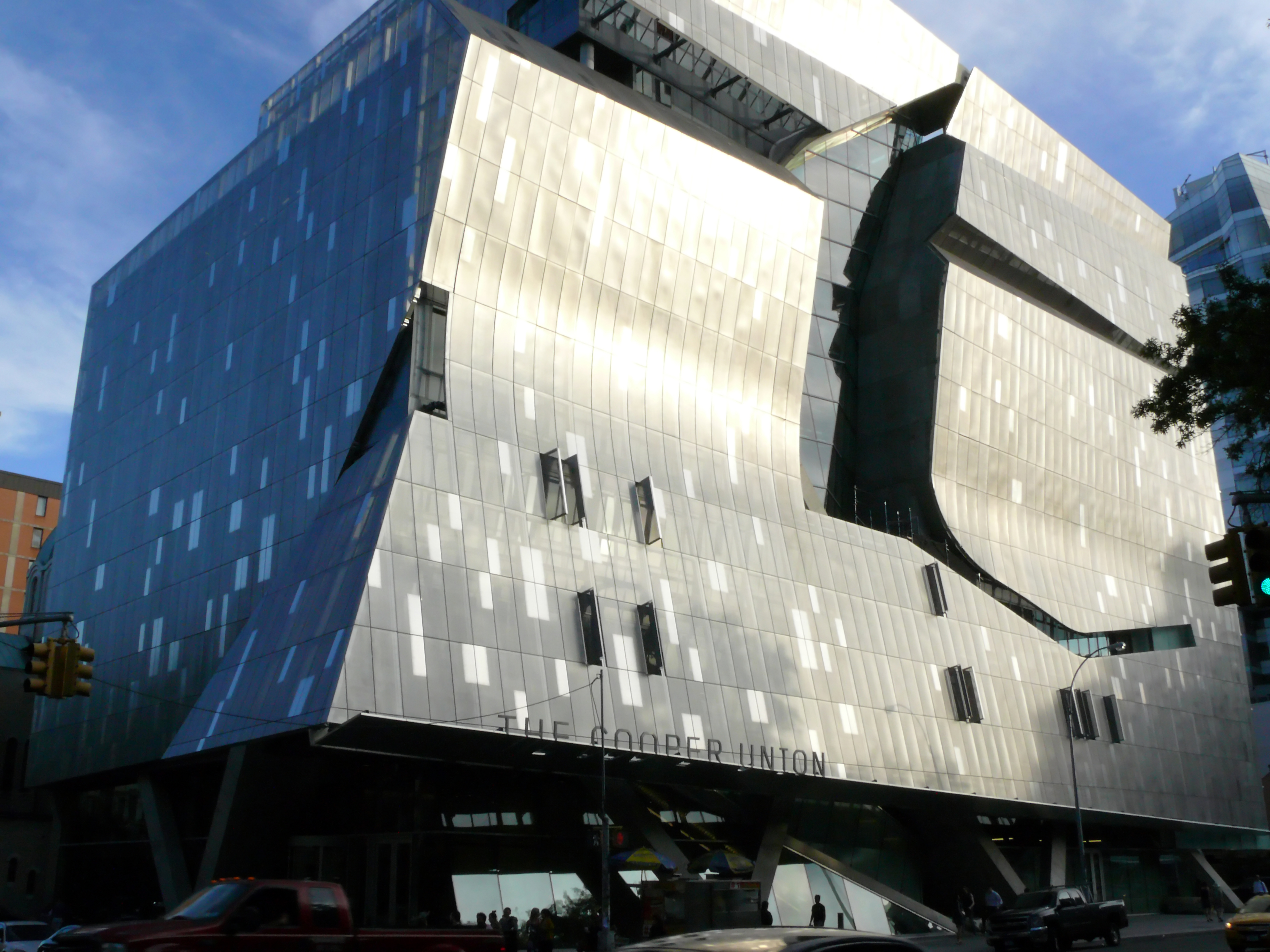 Photo of the Cooper Union New Academic Building, designed by Thom Mayne, from Cooper Triangle Park across 3rd Avenue.